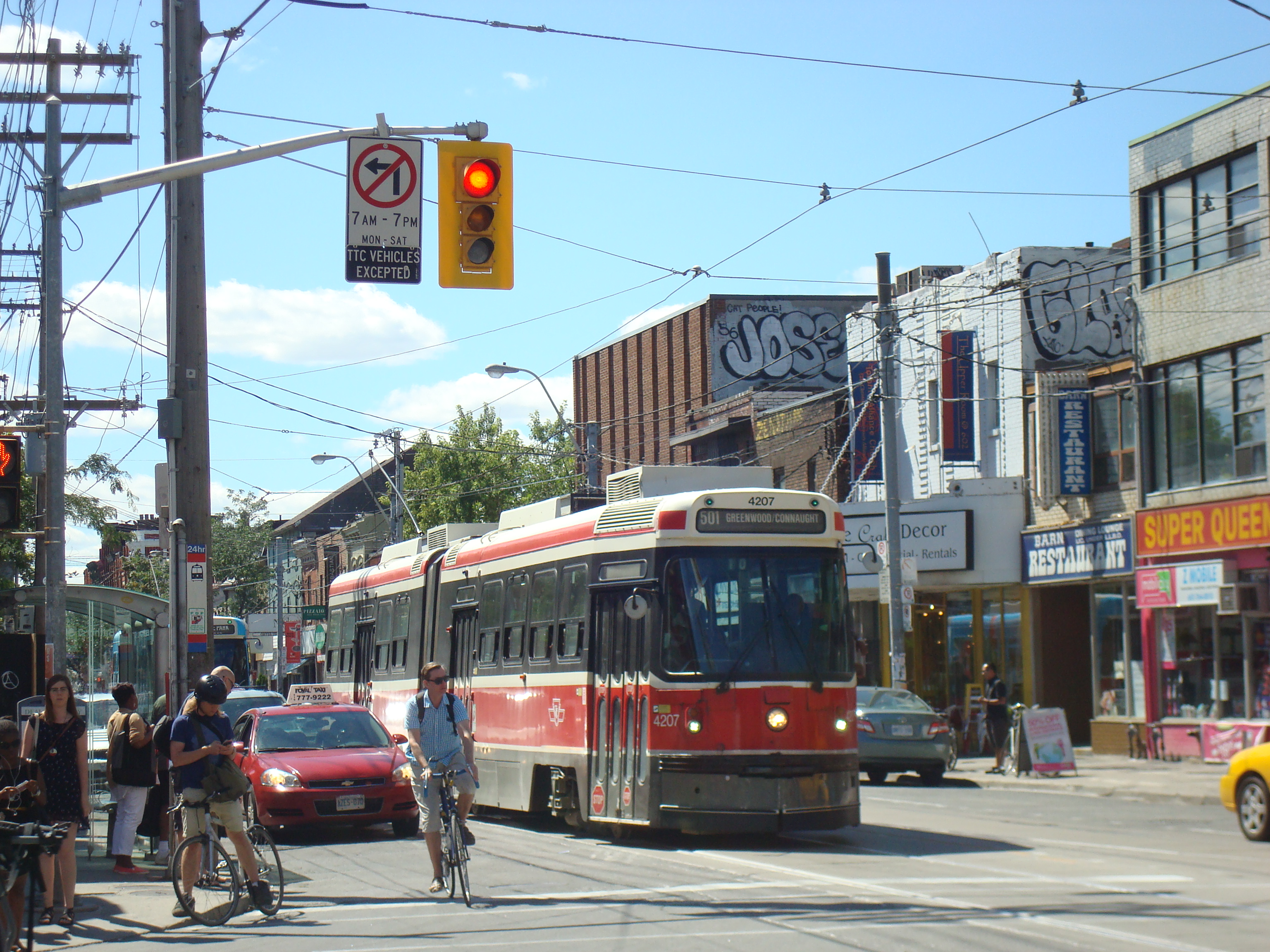 ALRV 4207 is seen heading eastbound on Queen Street West at Bathurst St. It is serving the 501 Queen streetcar route. Since both the 511 and 501 Queen streetcar lines are most likely to feature ALRVs in service, the Queen-Bathurst intersection is a great place to watch Toronto's streetcars. Shot on August 10, 2013.